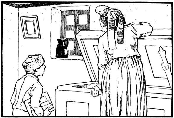 Illustration by Otto Ubbelohde to the fairy tale The Juniper Tree